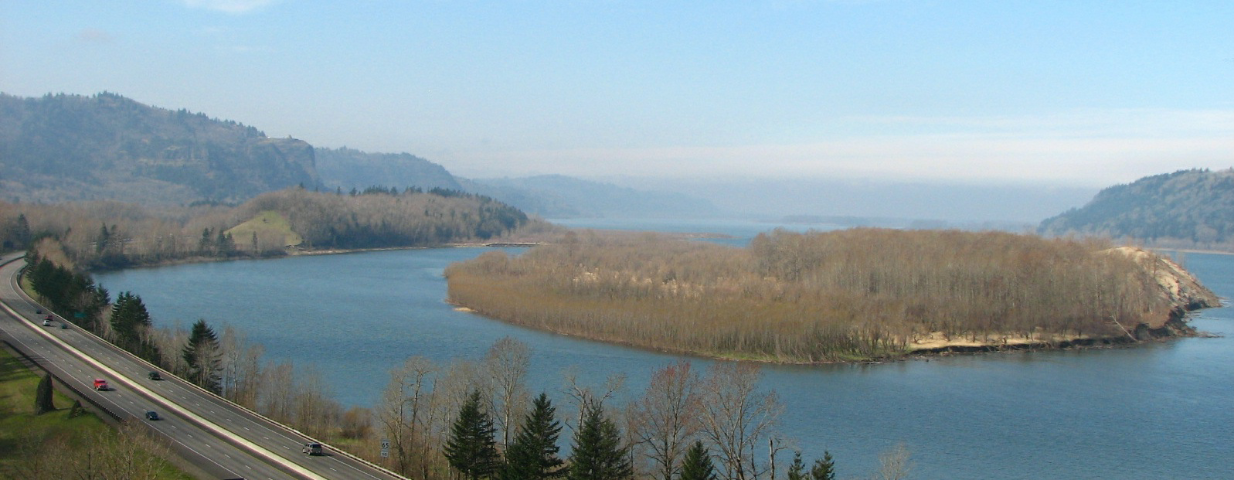 The view to the west from Bridal Veil Falls State Scenic Viewpoint, Oregon. Visible are Interstate 84 and the Columbia River, as well as Rooster Rock State Park, Crown Point, and Chanticleer Point.